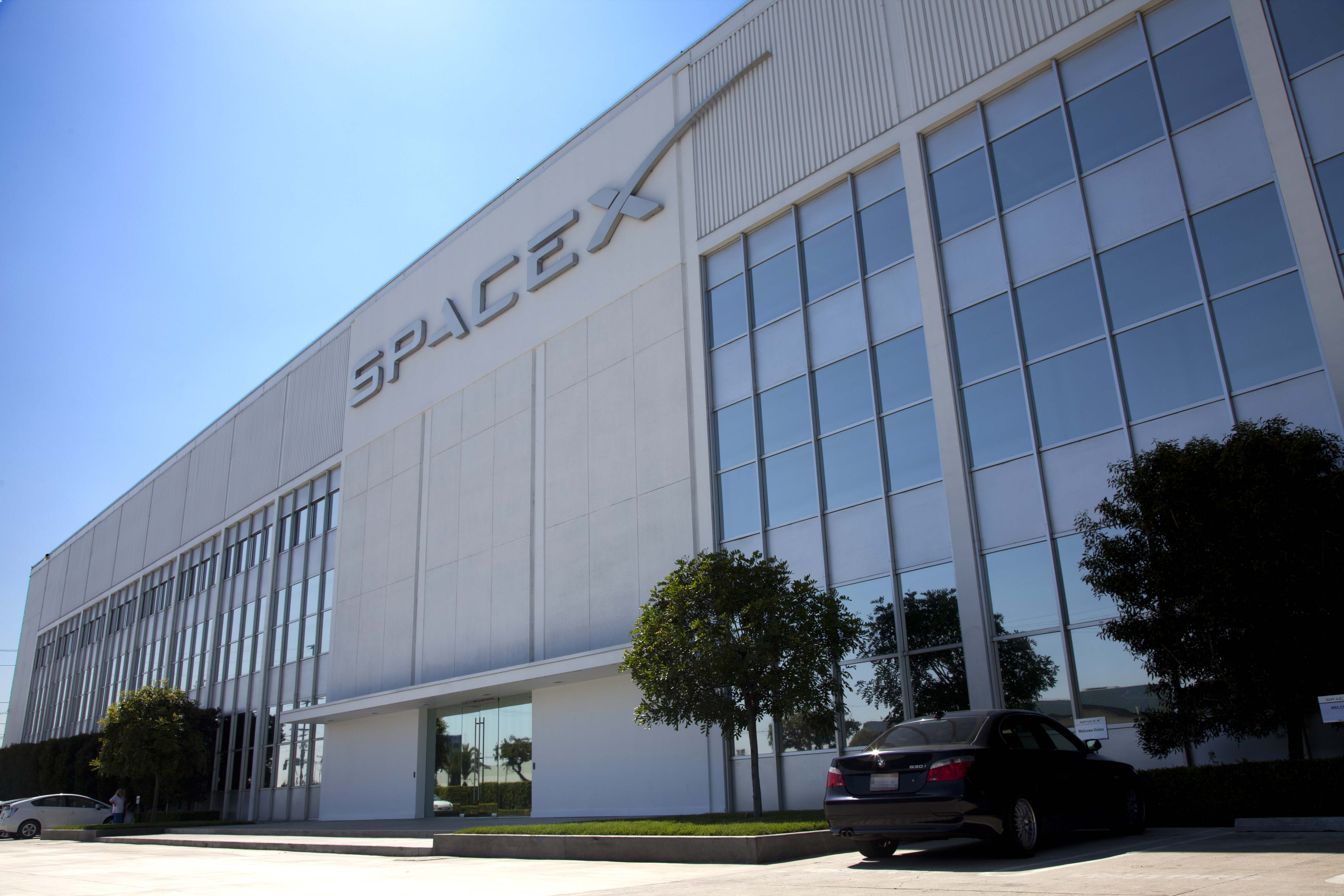 SpaceX Headquarters, Hawthorne, CA.